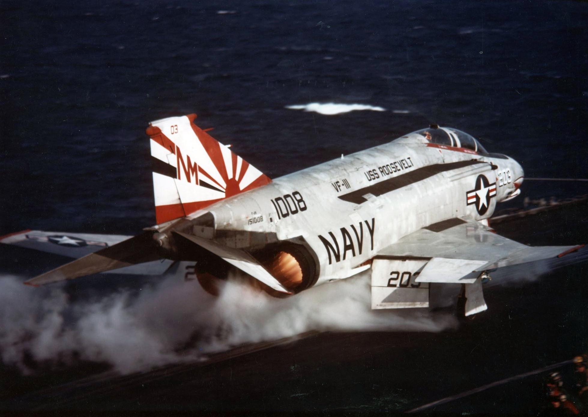 A U.S. Navy McDonnell F-4N Phantom II fighter (BuNo 151008) from Fighter Squadron VF-111 Sundowners being catapulted from the aircraft carrier USS Franklin D. Roosevelt (CV-42) in February 1977. VF-111 was assigned to Carrier Air Wing 19 (CVW-19) for FDR´s final cruise to the Mediterranean Sea from 4 October 1976 to 21 April 1977. Franklin D. Roosevelt was decommissioned on 30 September 1977.